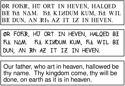 This image shows the first two sentences of the Lord's prayer, rendered in two Unifon fonts as well as a standard English font. The Unifon fonts are freely distributed, and were obtained from characters.htm. I made this image myself, using Gimp.